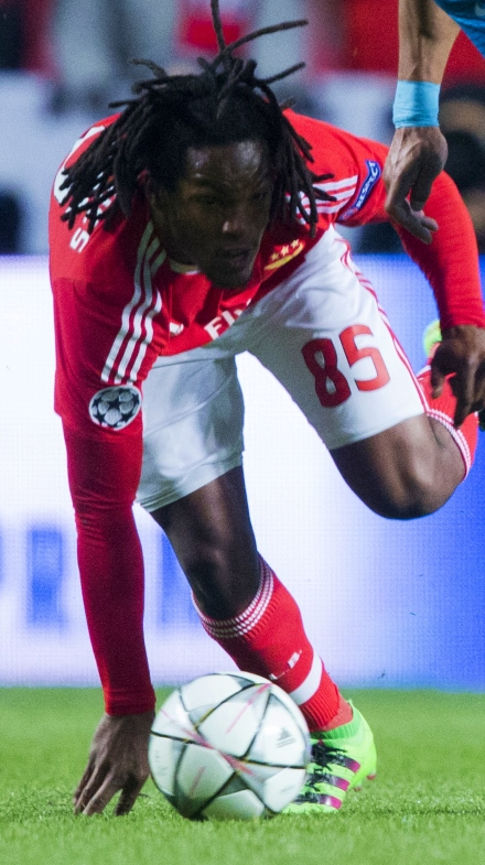 Renato Sanches